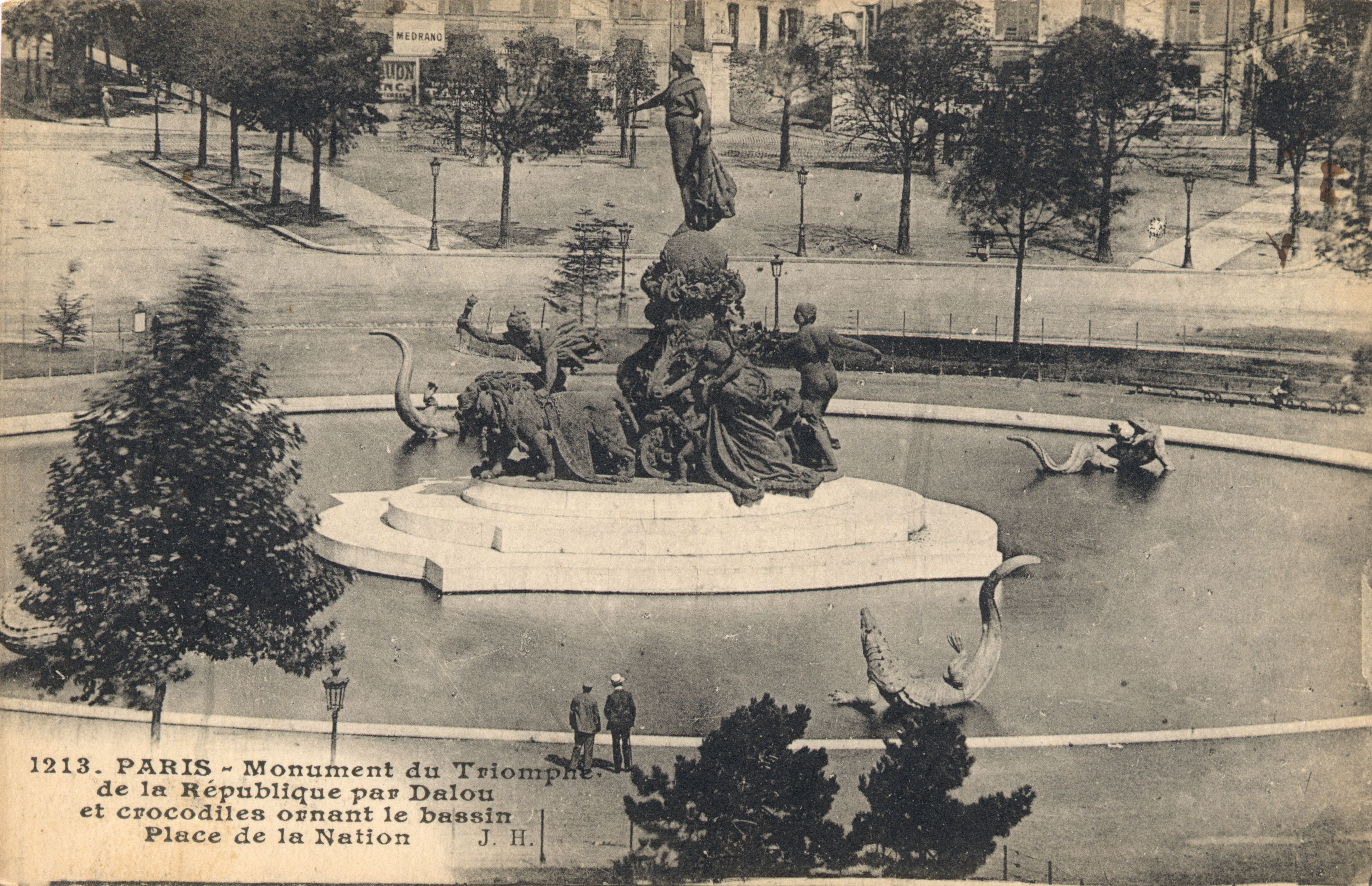 The Triumph of Republic (1899) by Jules Dalou, Place de la Nation (Paris). The sea monsters / fountains are by Georges Gardet. They have been added in 1908, then removed in 1941 by Germans to recover the metal for weapons production. The pool was removed in the 1960's because of the RER construction.